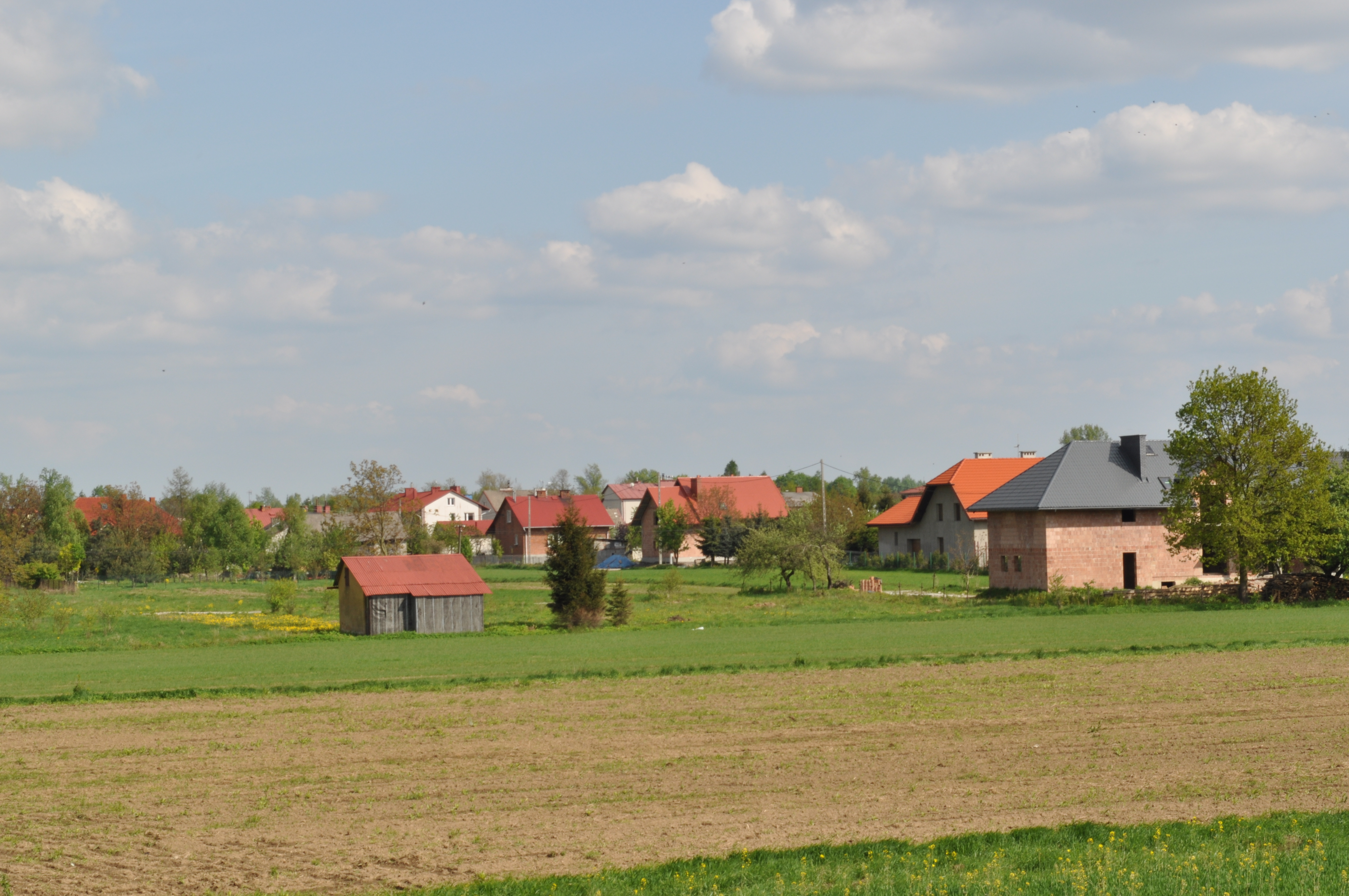 Podleszany